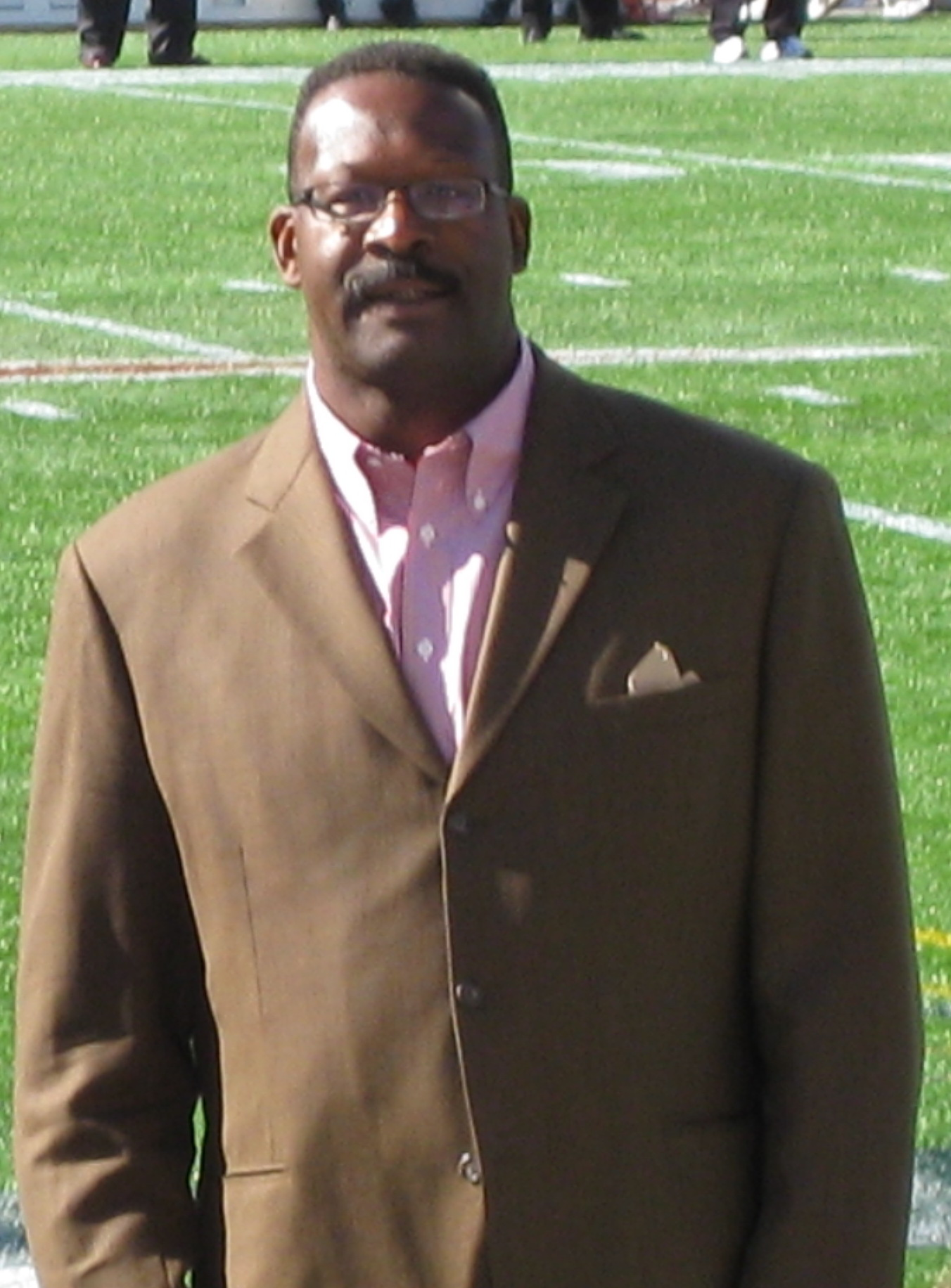 Taken at the New England Patriots vs St Louis Rams game on 26 Oct 08.